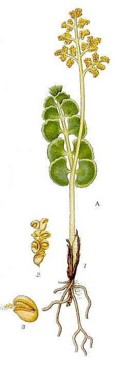 Botrychium lunaria (L.) Sw. [=Botrychium vulgare (L.) Sw.] Fragment of Ill. 511 from «Bilder ur Nordens Flora» (1917-1926) by Carl Axel Magnus Lindman (1856-1928)